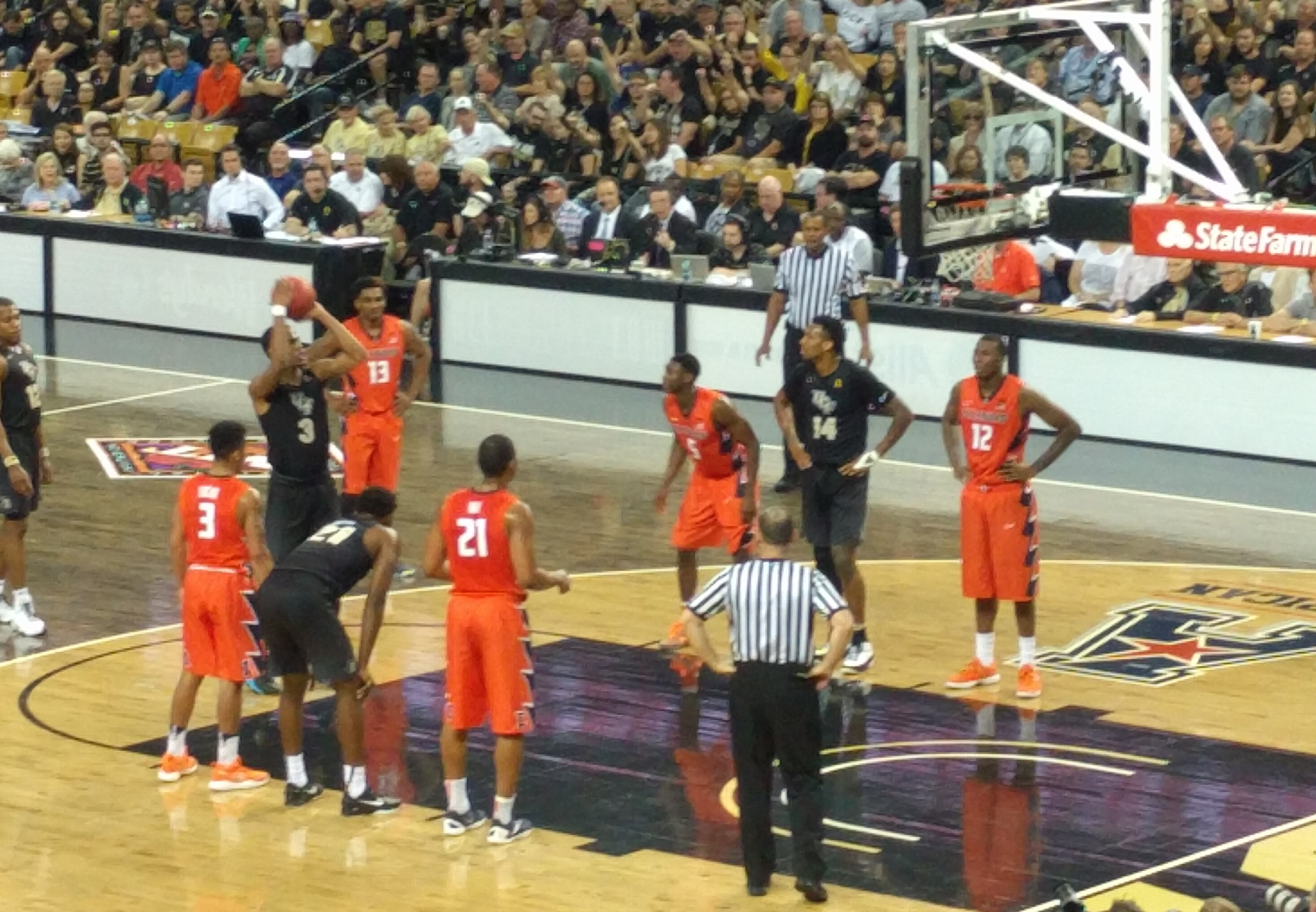 2017 National Invitation Tournament Quarterfinals UCF 68, Illinois 58